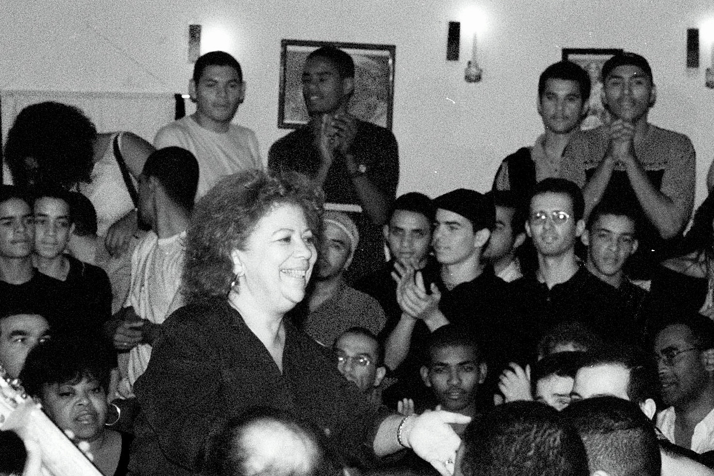 Beth Carvalho - "Madrinha da Comunidade Samba da Vela" - in 2000